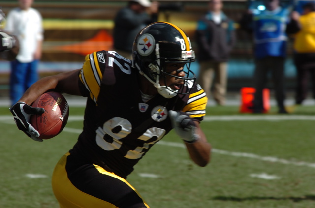 Antwaan Randle El of the Pittsburgh Steelers running with the ball.